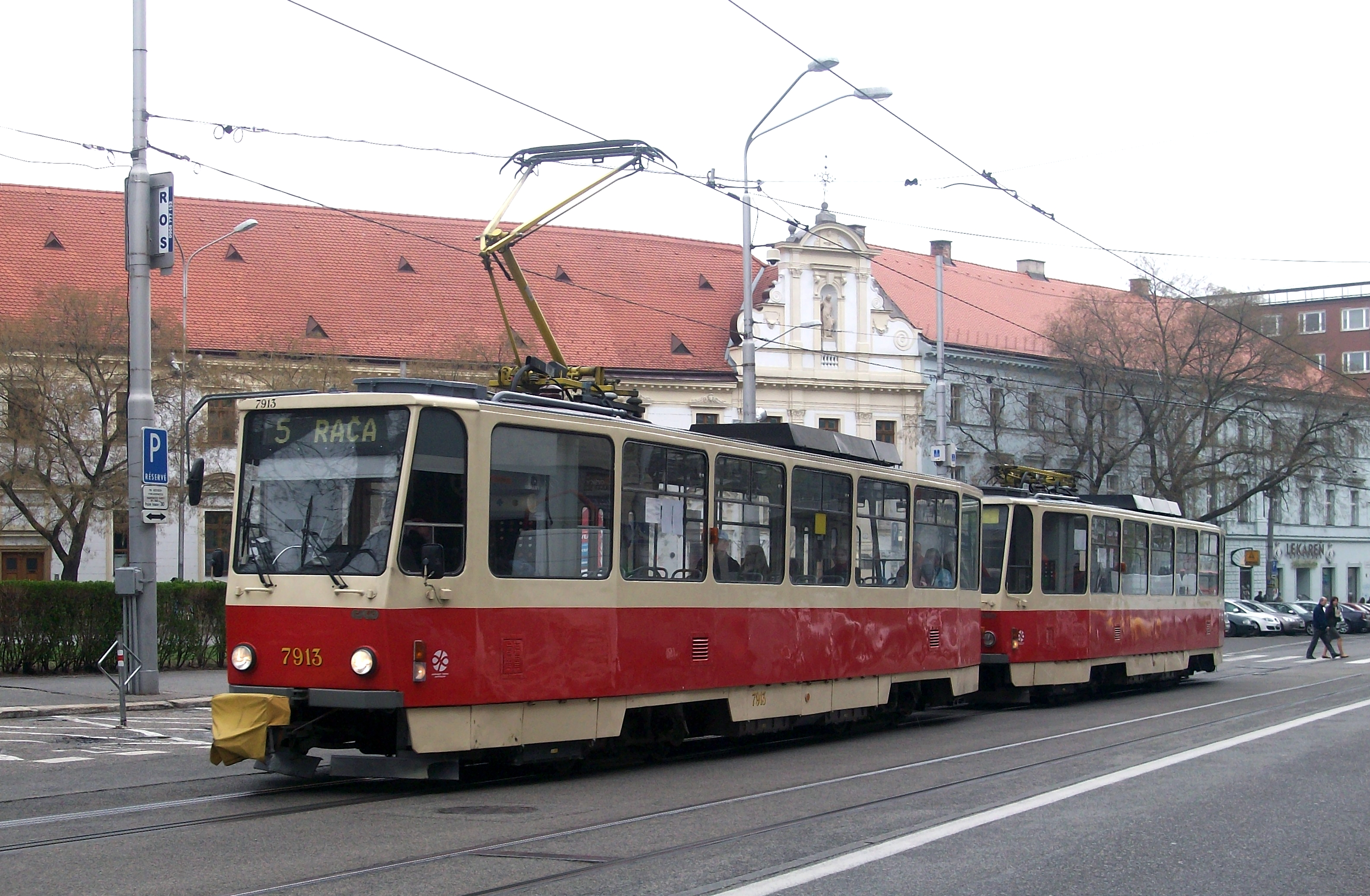 Tatra T6A5, Bratislava